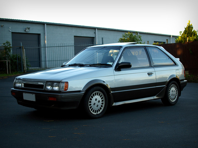 5th generation Mazda Familia hatchback. Full time 4WD DOHC turbo GT-X model, chassis designation "BFMR". Japanese specification, but imported used into New Zealand.